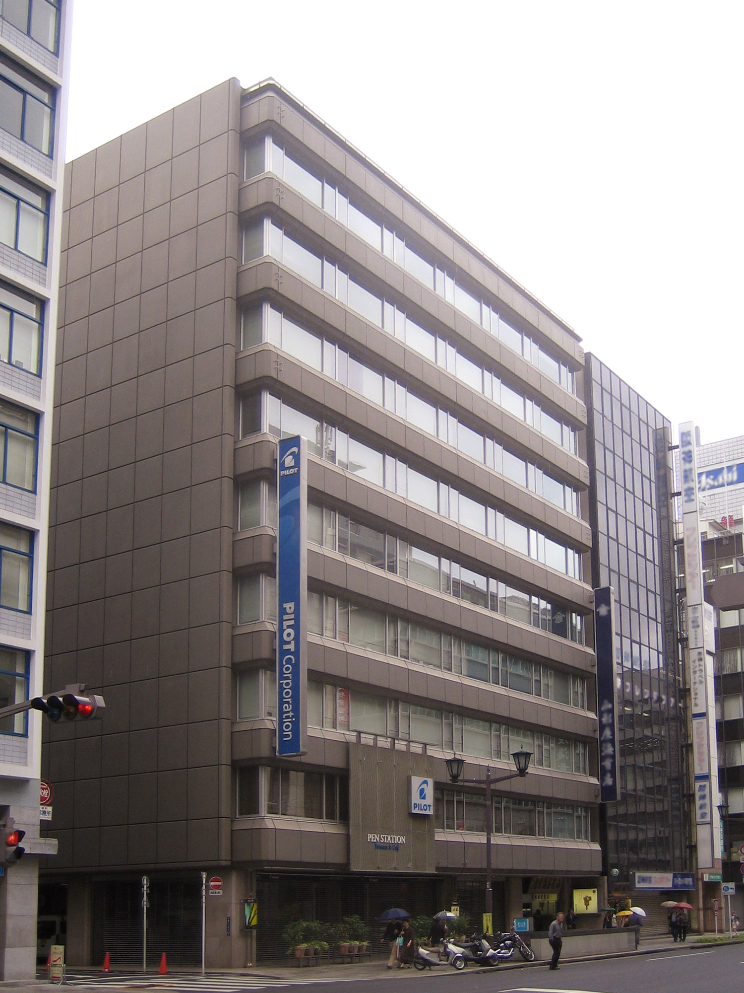 PILOT Corporation (パイロットコーポレーション), in Chuo, Tokyo, Japan